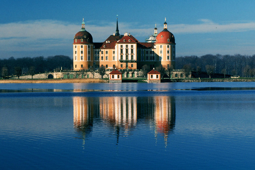 Castle Moritzburg (Germany), view from east